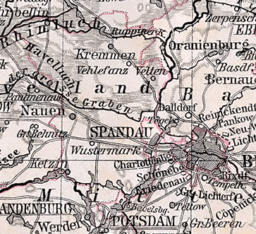 Detail from a map of Brandenburg.